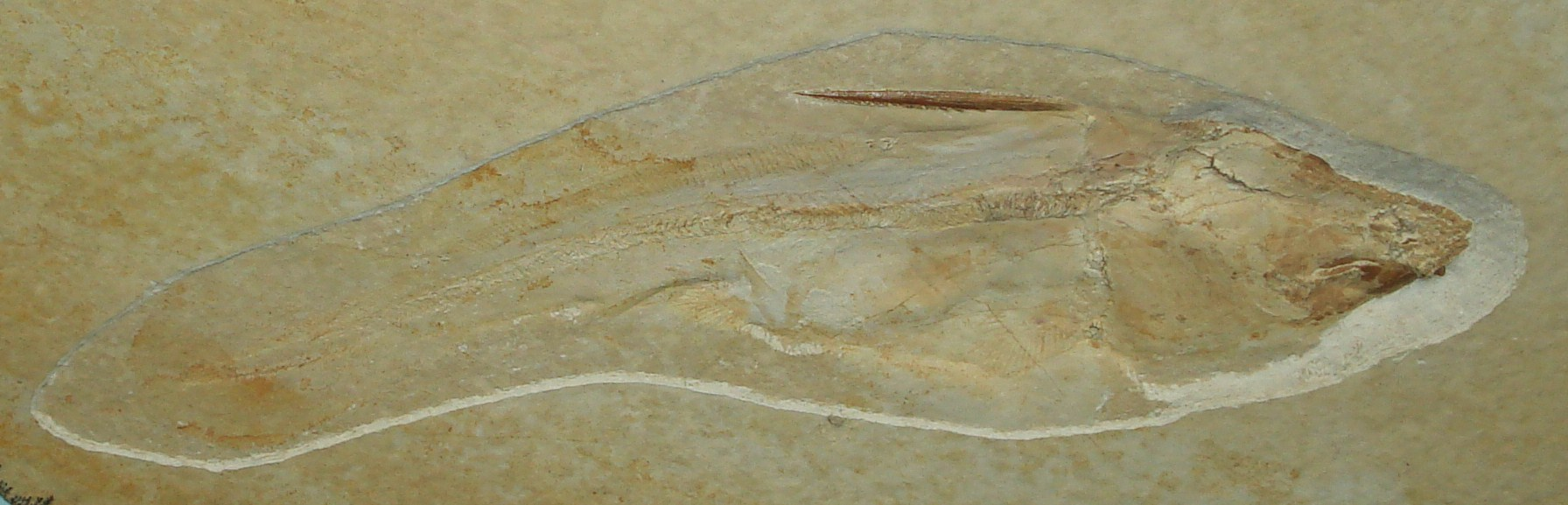 fossil of elasmodectes